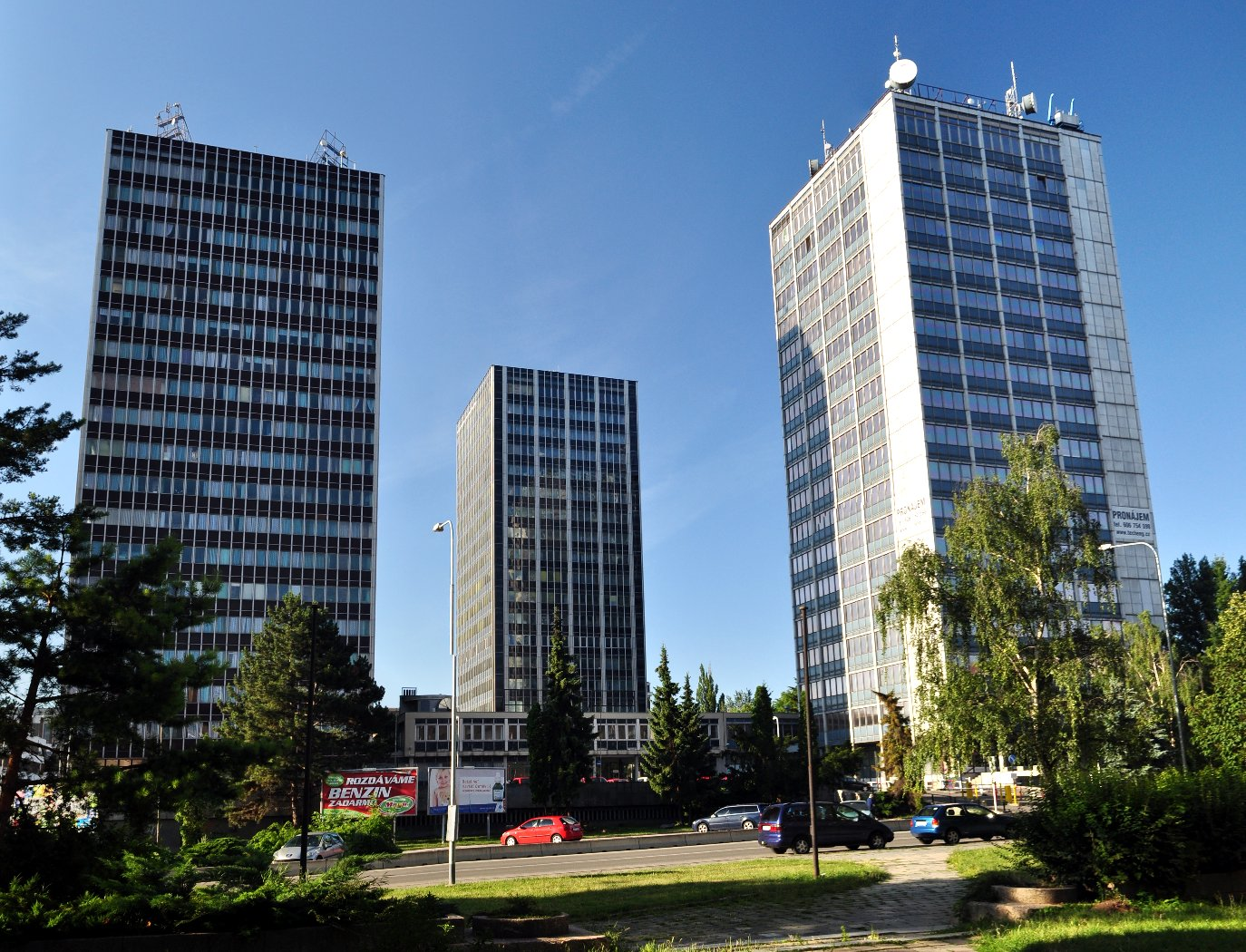 Office buildings on Šumavská street in Brno, Moravia, European union, 19 floors, 70 meters high, build during communism era